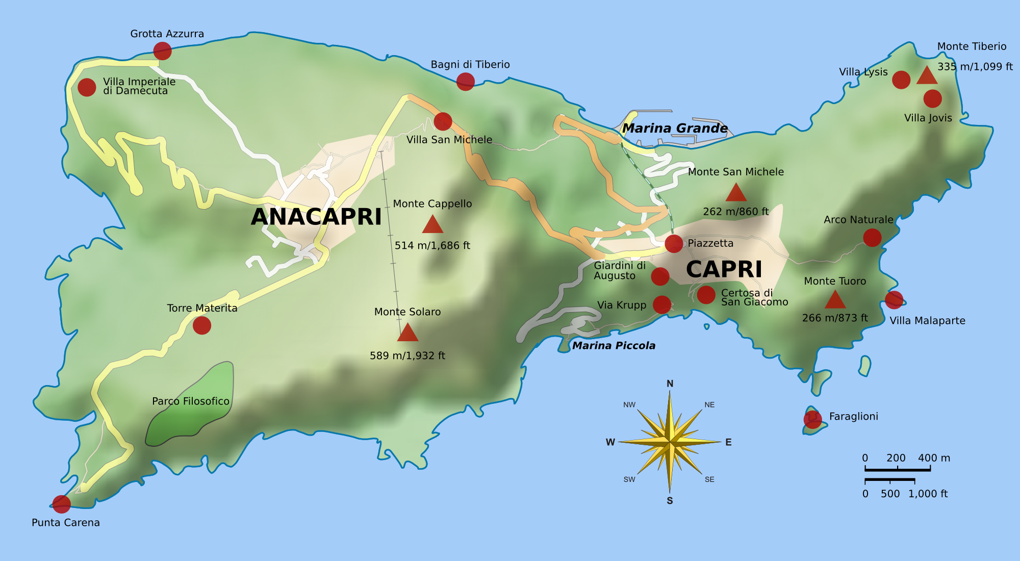 Map of Capri. Uses terrain data from SRTM3 ( Bitmap version of File:Capri_sights_terrain.svg. Note: An offical map of Capri (with roads, etc.) can be found at